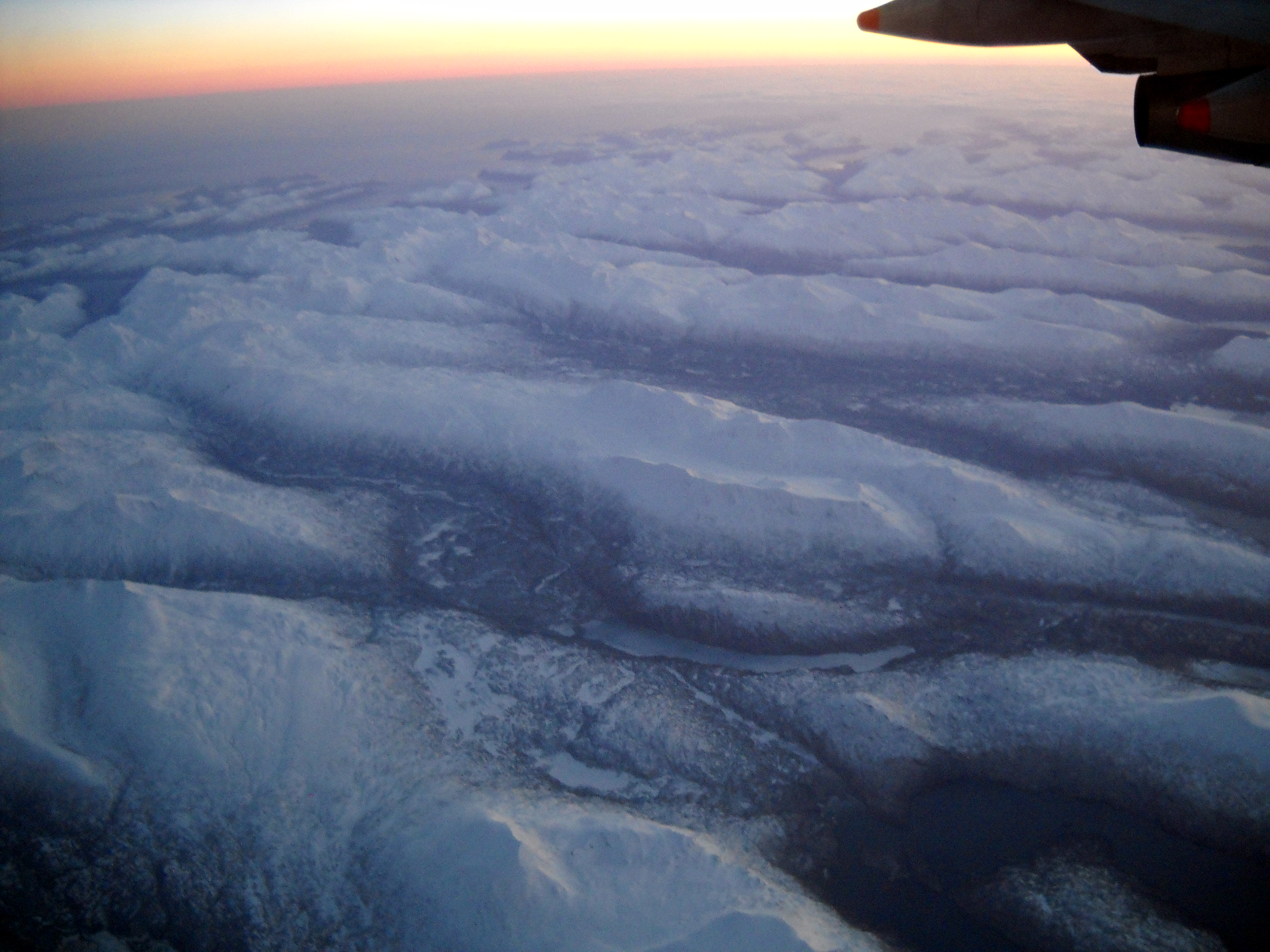 The Aleutian Islands @ 32,000 AGL Photo D Ramey Logan